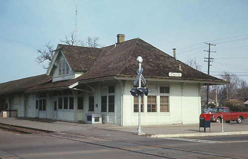 Chico station in February 1969